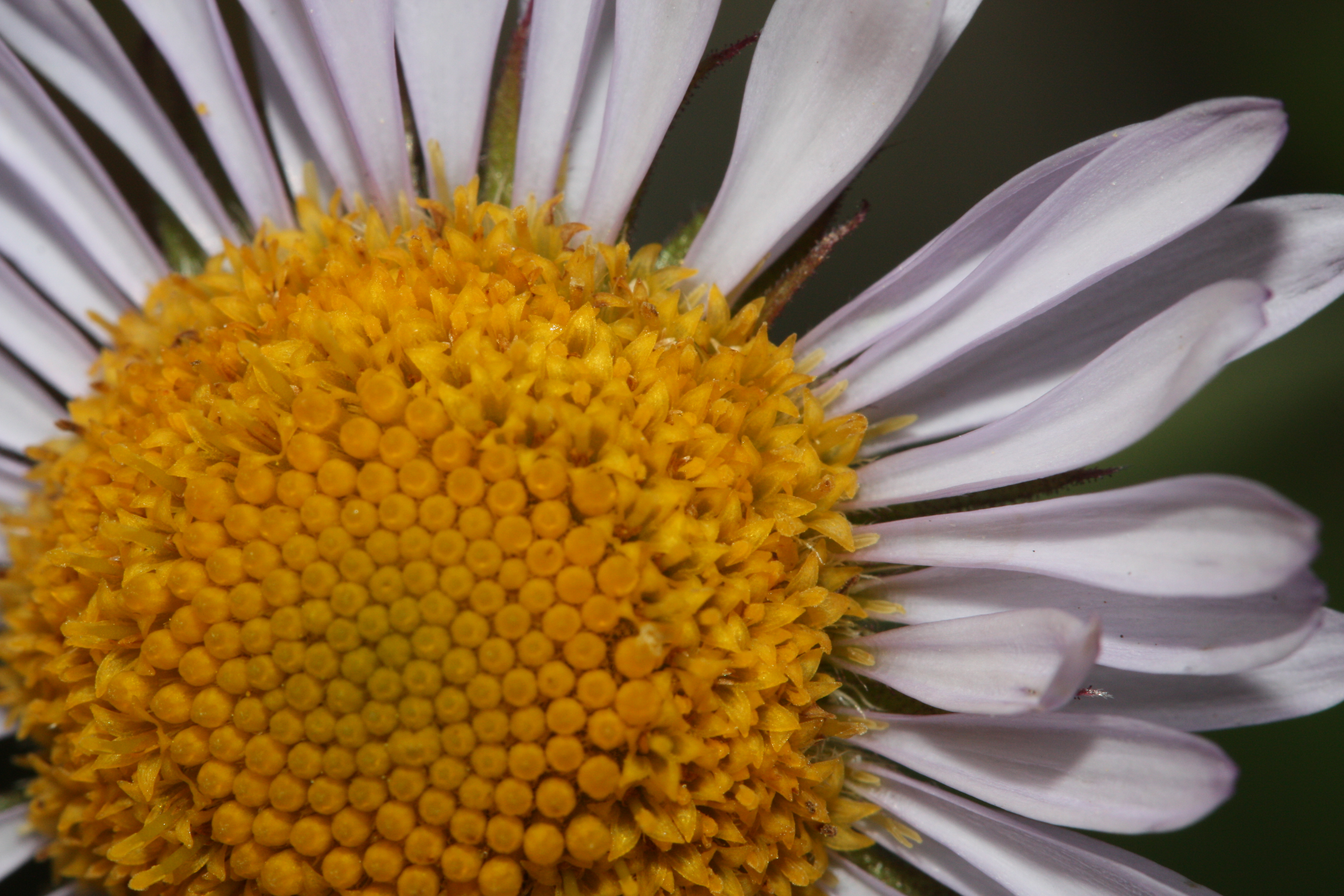 Subalpine Fleabane, Peregrine Fleabane